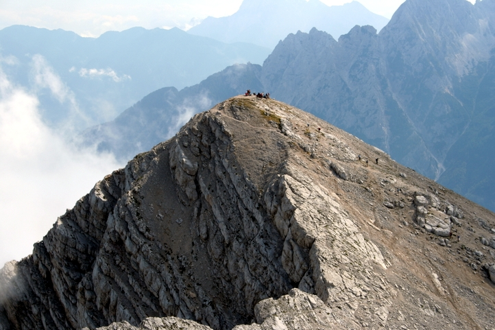 Mala Mojstrovka